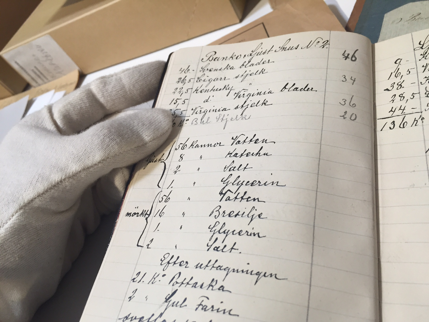 An old swedish recipe for snus.